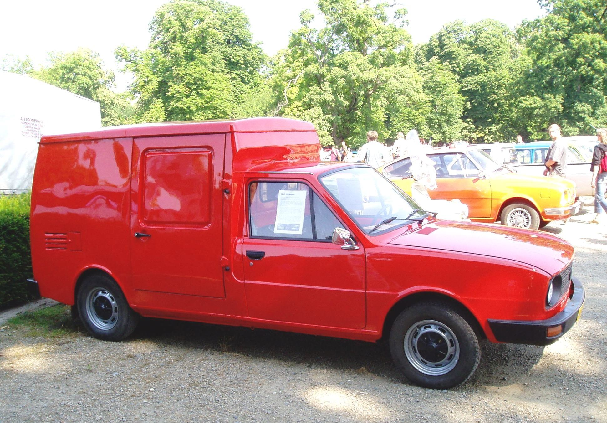 Prototype Škoda Furgonet from BAZ (1983) with rear engine.